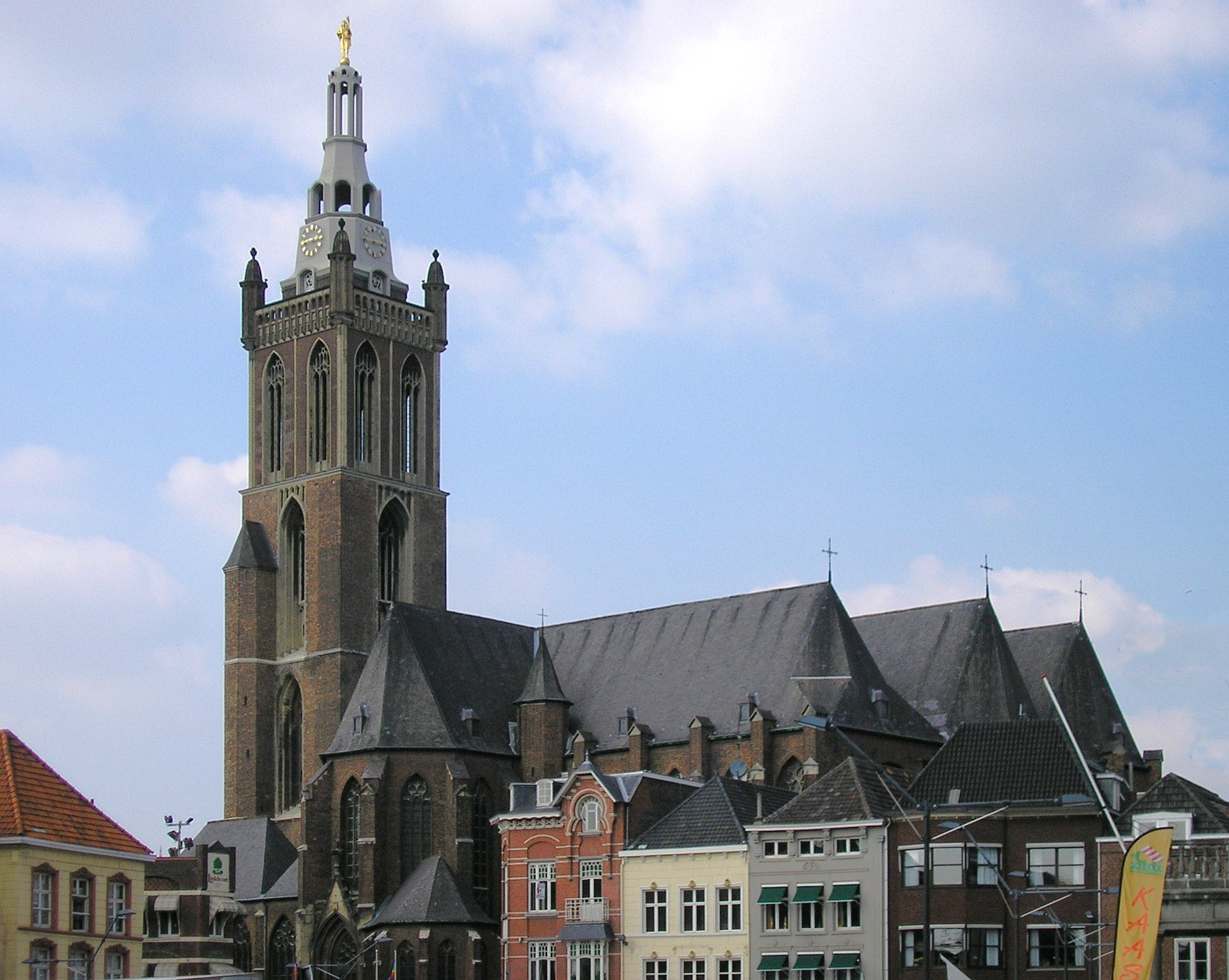 Kathedrale Roermond